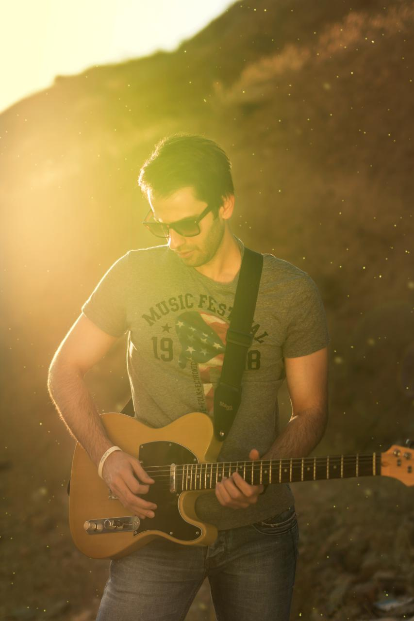 portrait of a Young guitarist playing an electric guitar in mountains with lens flare and bokeh